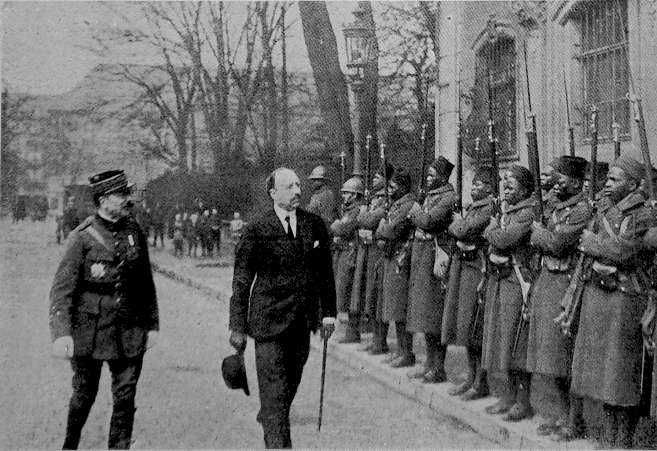 Jean Degoutte and Paul Tirard inspecting a gauard of Honour composed of Senegalese Tirrailleurs